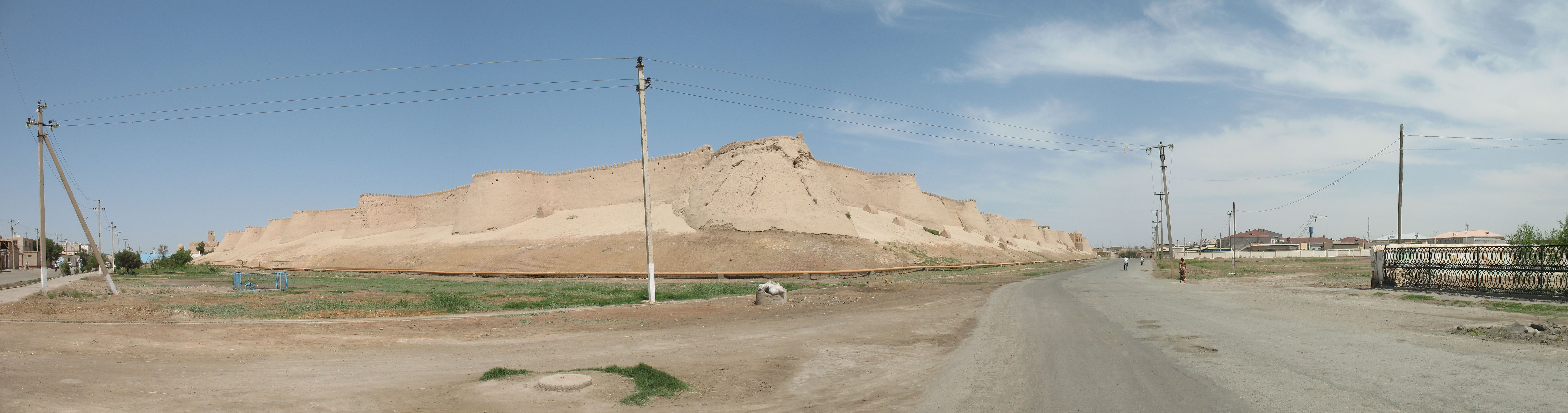 City wall in Khiva, Uzbekistan Oʻzbekcha/ўзбекча: Xiva, Oʻzbekiston